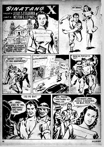 Binatang X by Jesus Esguerra, Illustrated by Nestor Leynes, Pilipino Komiks Issue 15 December 27 1947